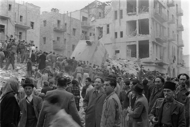 This shows the building destroyed by the car bombing in Ben Yehuda street at Jerusalem on Feb 22, 1948 during the Palestine War of 1948. This was organised by Hajj Amin al-Husseini's men. 52 Jewish civilians kild and 123 injured. See Ben Yehuda Street Bombing